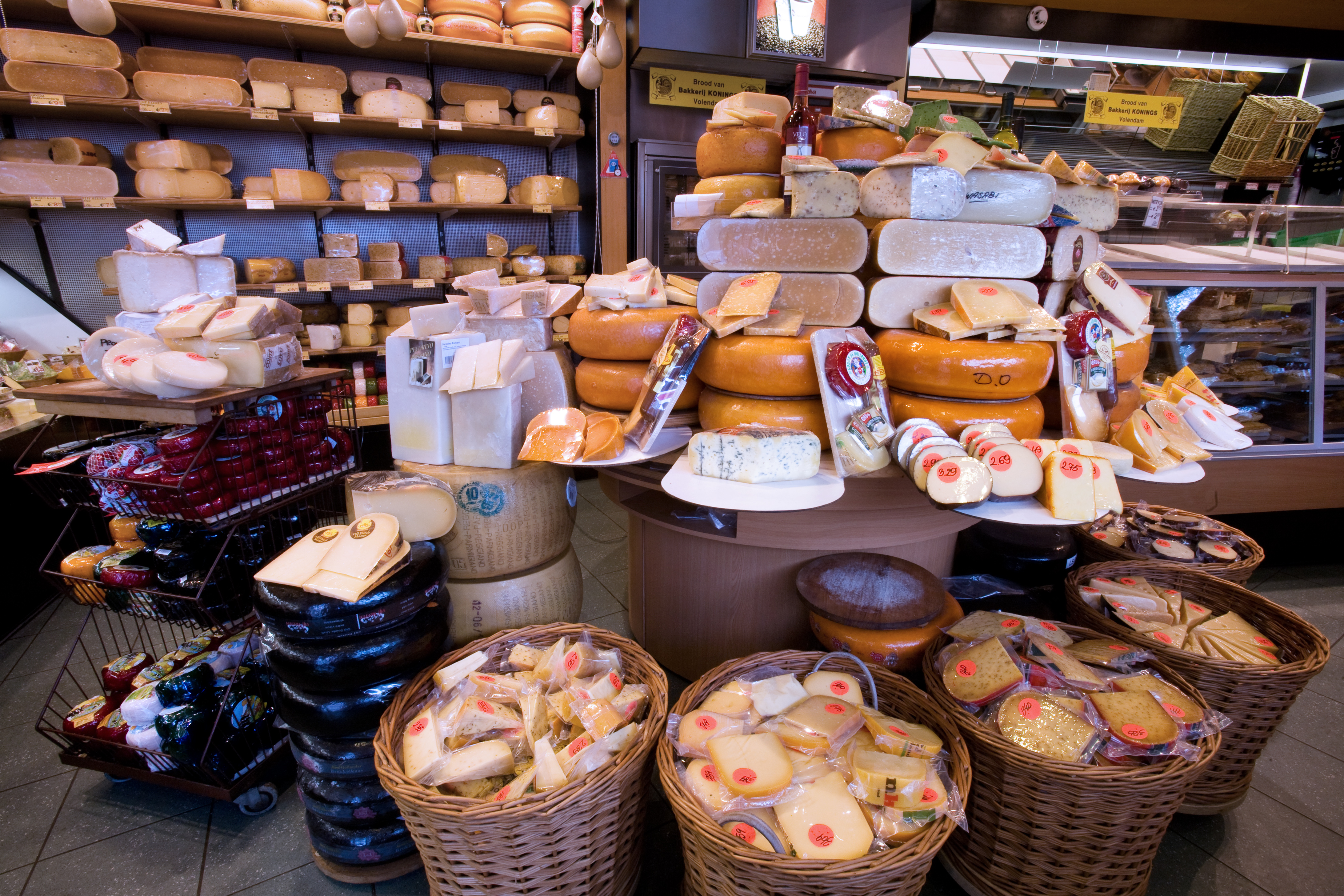 Cheese store. Amsterdam, The Netherlands